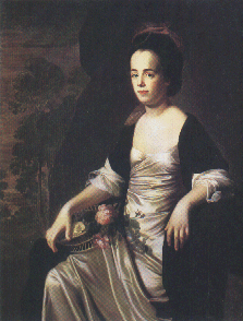 Judith Sargent Murray, (1751-1820) , a writer and poet, playwright, and letter-writer